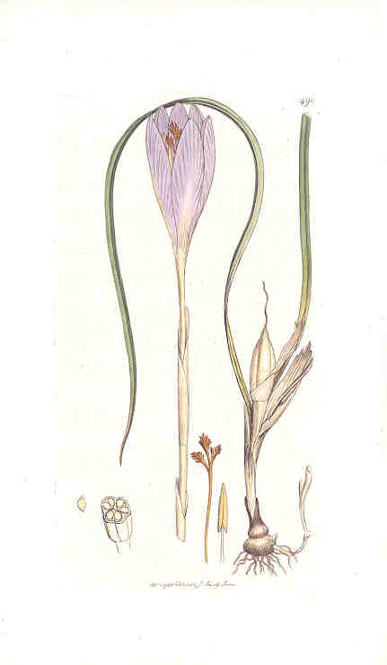 This is an image of a print of a hand coloured copper engraving by James Sowerby (1757-1822). It describes a specimen of Crocus nudiflorus (Naked-flowering Crocus) as it appeared in English Botany .